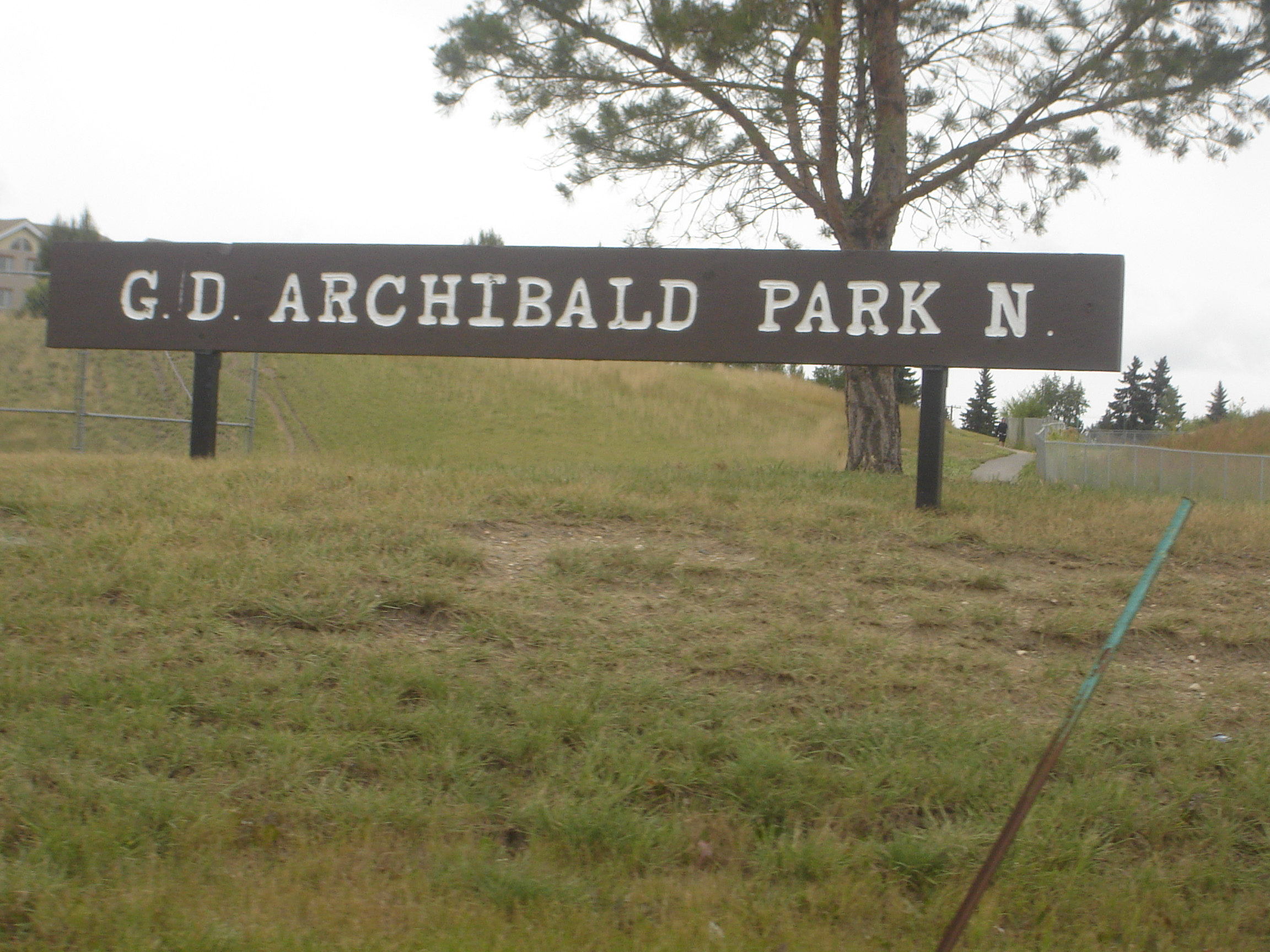 George D. Archibald Park North, Richmond Heights Saskatoon Saskatchewan